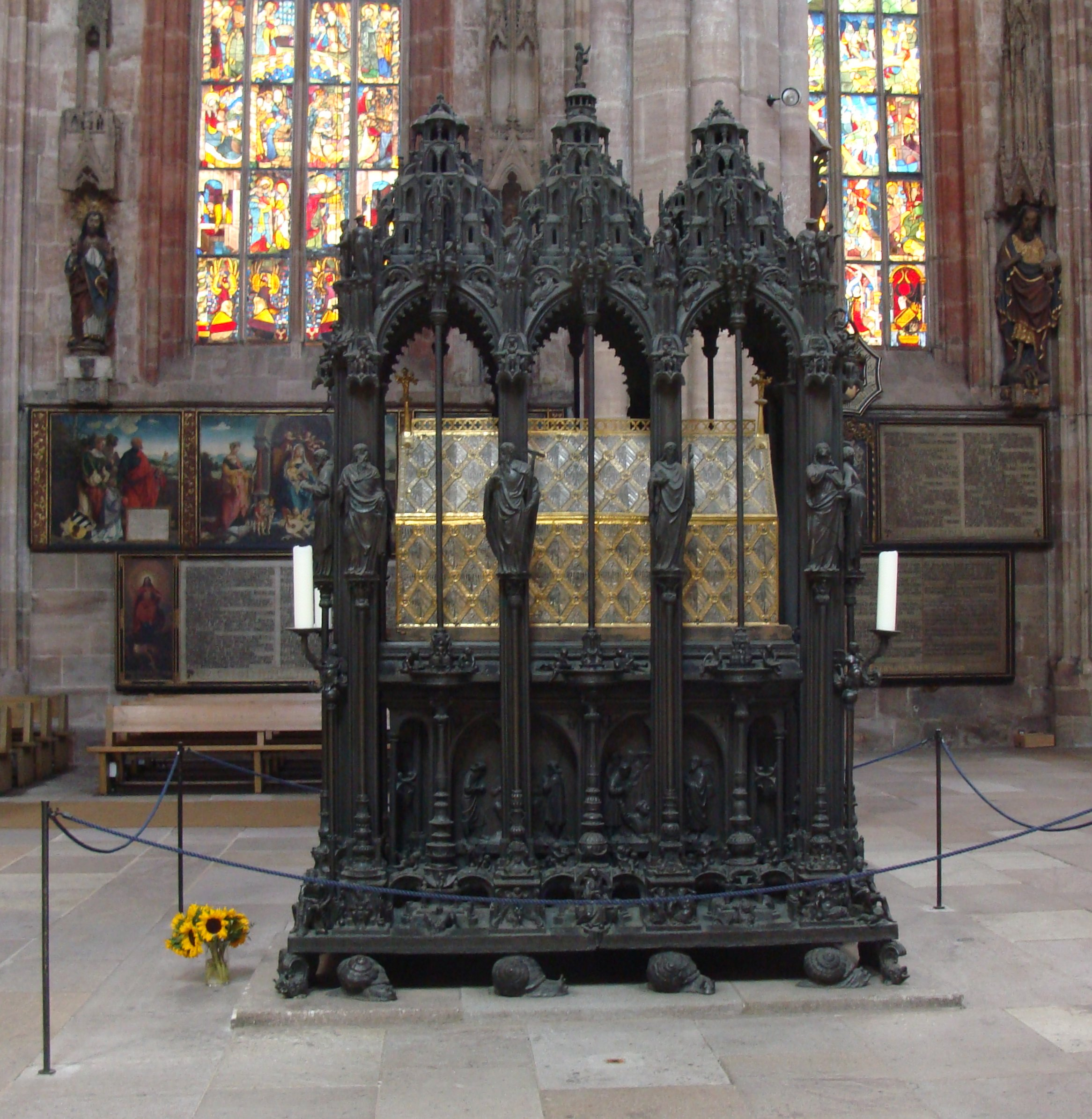 Monument of St Sebaldus